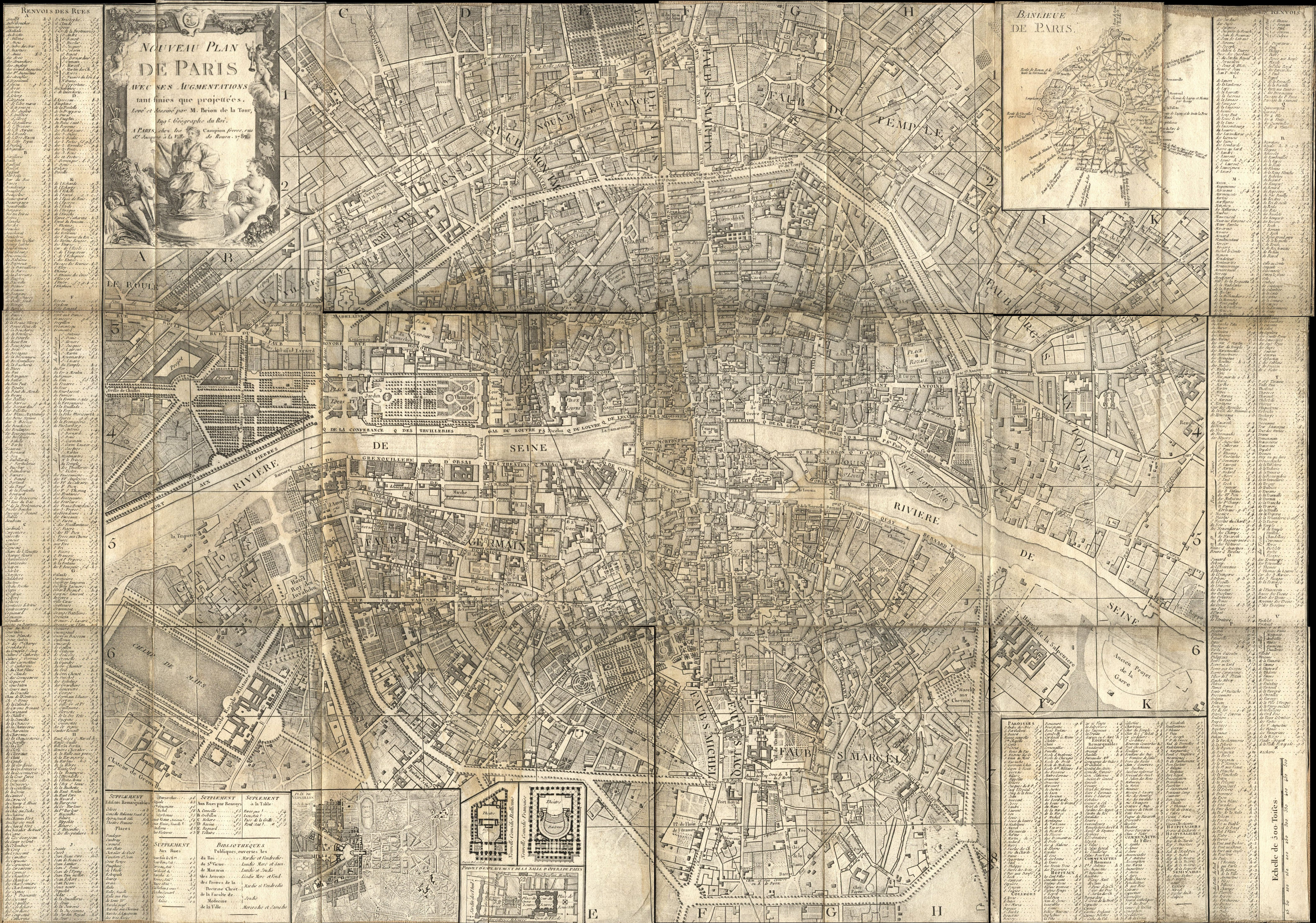 Map of Paris (Nouveau plan de Paris avec ses augmentations tant finies que projetées) from 1787, designed par Brion de la Tour